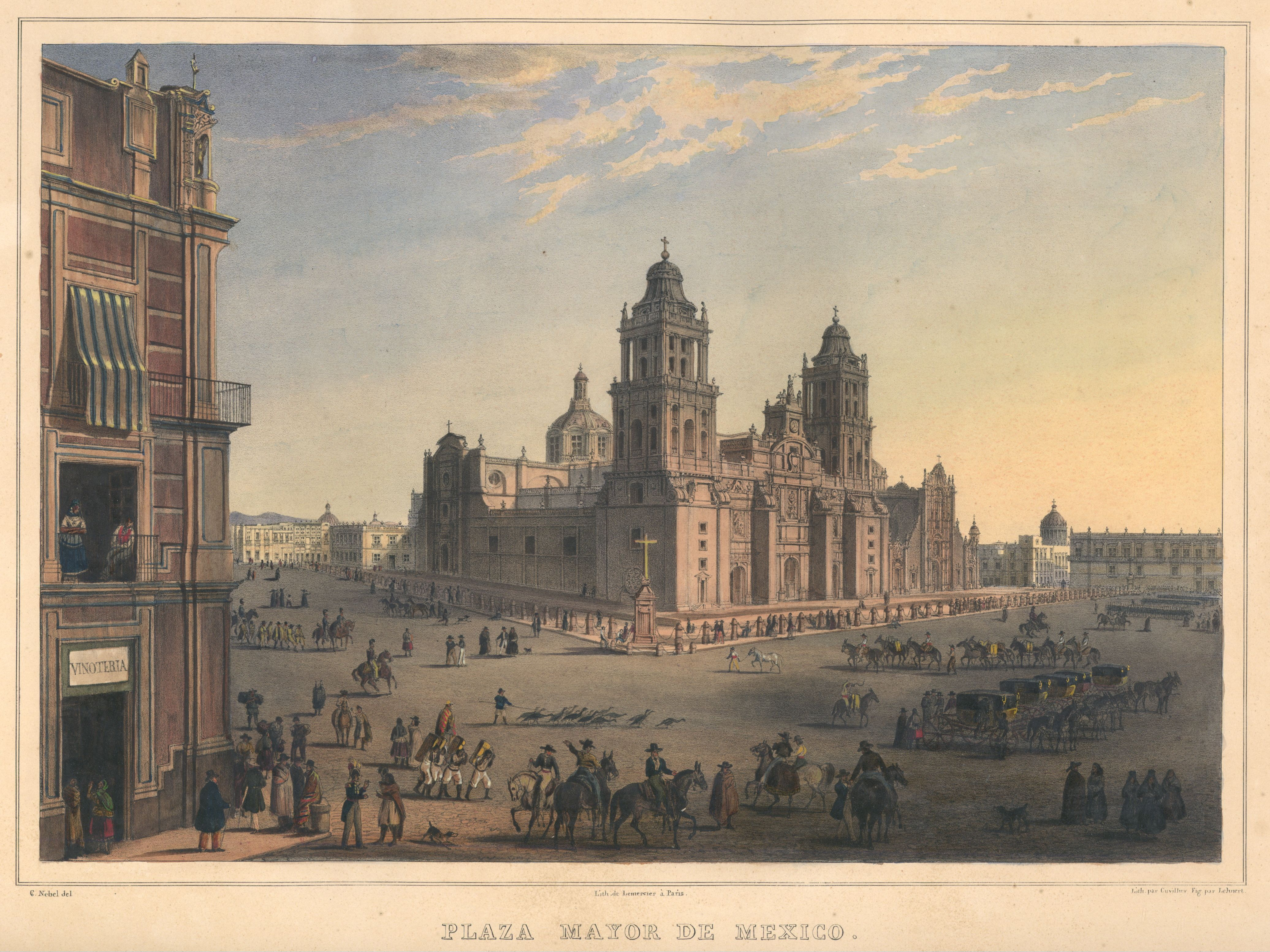 Plaza Mayor De Mexico. View of the main square of Mexico City. Hand-colored lithograph highlighted with gum arabic. Original size (neat lines): 34×24 cm.